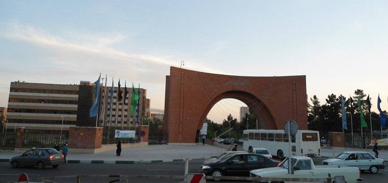 Tarbiat Modares Univ. entrance